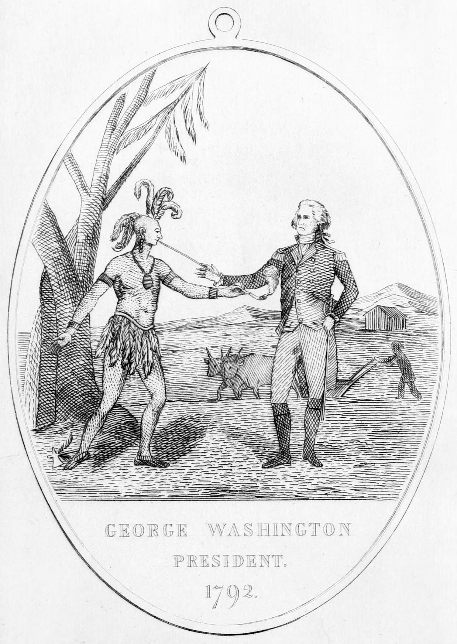 Etching of the front side of an Indian Peace Medal given to Seneca chief Red Jacket by President George Washington in 1792. The medal was passed down to Red Jacket's heirs, and was owned by Ely S. Parker at the time this etching was made. Parker claimed the medal was made by David Rittenhouse, the first director of the U.S. Mint. [1]